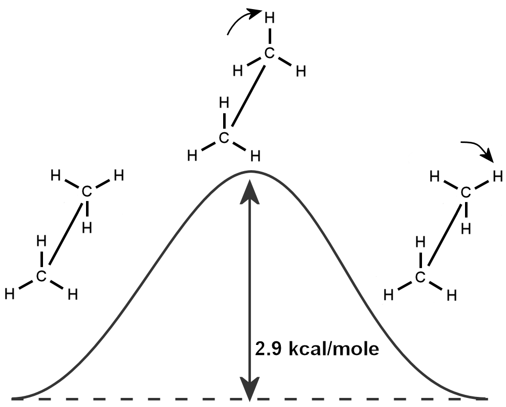 Barrier to rotation about the carbon-carbon bond of ethane, the ethane barrier. Experimental value of 2.9 kcal/mole is shown.